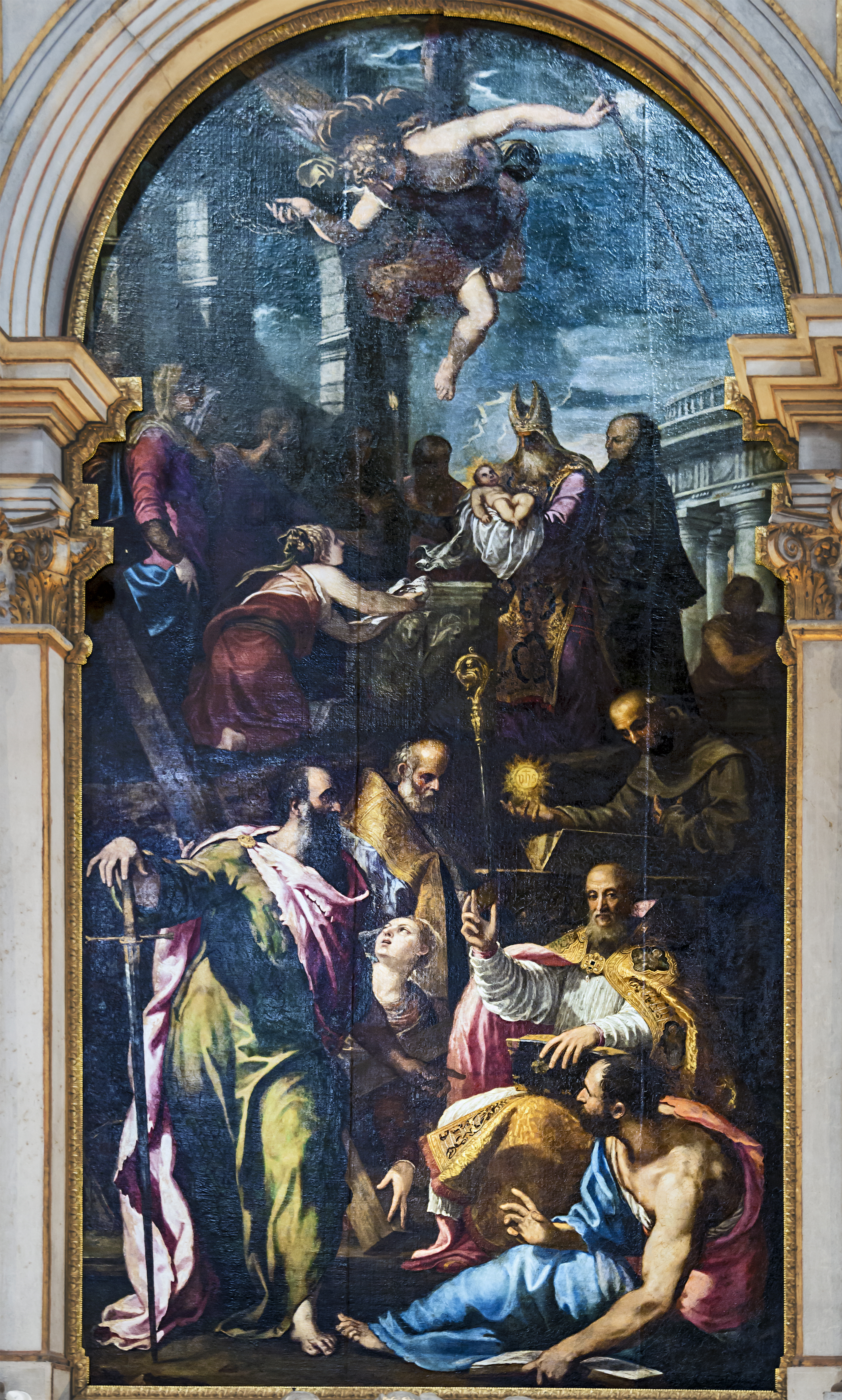 The right side of the nave of the Santa Maria Gloriosa dei Frari. Presentation of Jesus Christ at the Temple by Giuseppe Porta. Height: 483 cm (15.8 ft); Width: 247 cm (97.2 in) dimensions QS:P2048,483U174728;P2049,247U174728